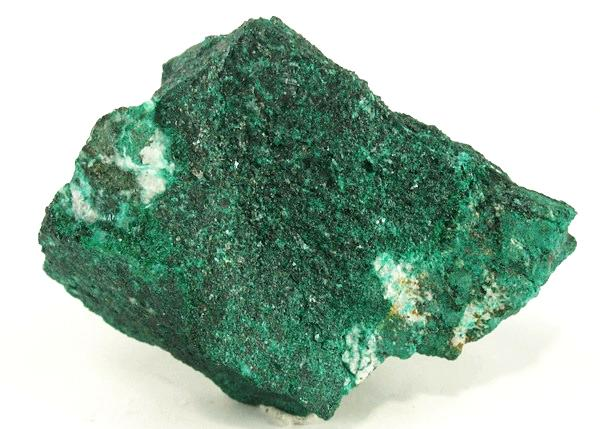 Antlerite Locality: Chuquicamata Mine, Chuquicamata District, Calama, El Loa Province, Antofagasta Region, Chile (Locality at ) Size: 6.2 x 4.5 x 1.8 cm. An extremely rich, two-sided specimen of solid, lustrous, dark green antlerite crystals to 8 mm from the world’s largest open pit copper mine, Chuquicamata, in Chile. The locality is now long gone and good, rich, colorful pieces like this are almost impossible to come by of the rare copper species once found there. This is an exceedingly rich, rare, beautiful plate of the species. Not only is it beautiful, but it is a very significant specimen of a very rare copper species. Probably circa 1900-1950. Ex. Tribbey, Sanborn and Tarnowski Collections.